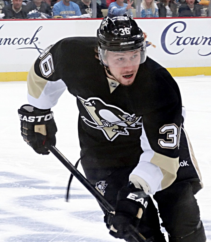 Pittsburgh Penguins forward Jussi Jokinen during game five of the second round of the Stanley Cup playoffs against the Ottawa Senators, May 24, 2013 at Consol Energy Center in Pittsburgh, PA.